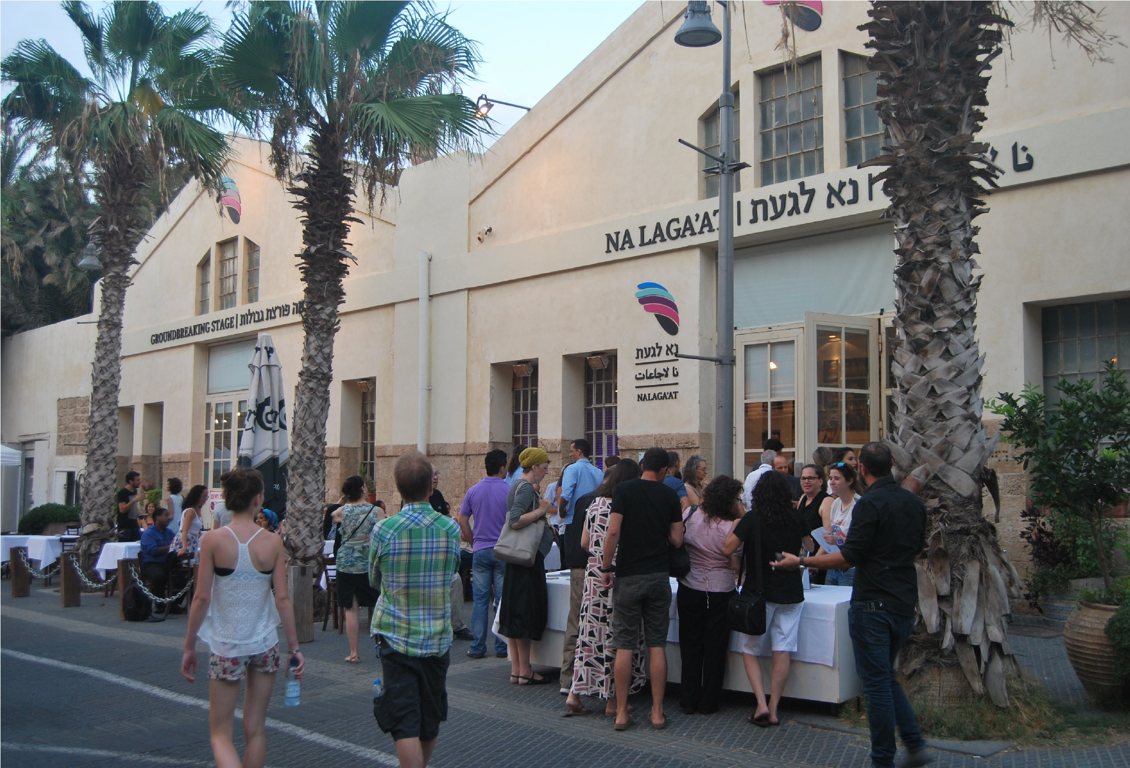 Nalagaat front entrance